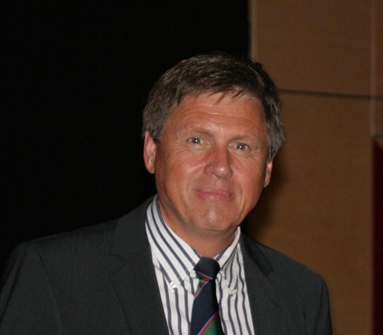 Ulrich Walter after his lecture “In 90 Minuten um die Welt” (“In 90 minutes around the world”) in the Hinterlandhalle, Daupthe (Hesse).